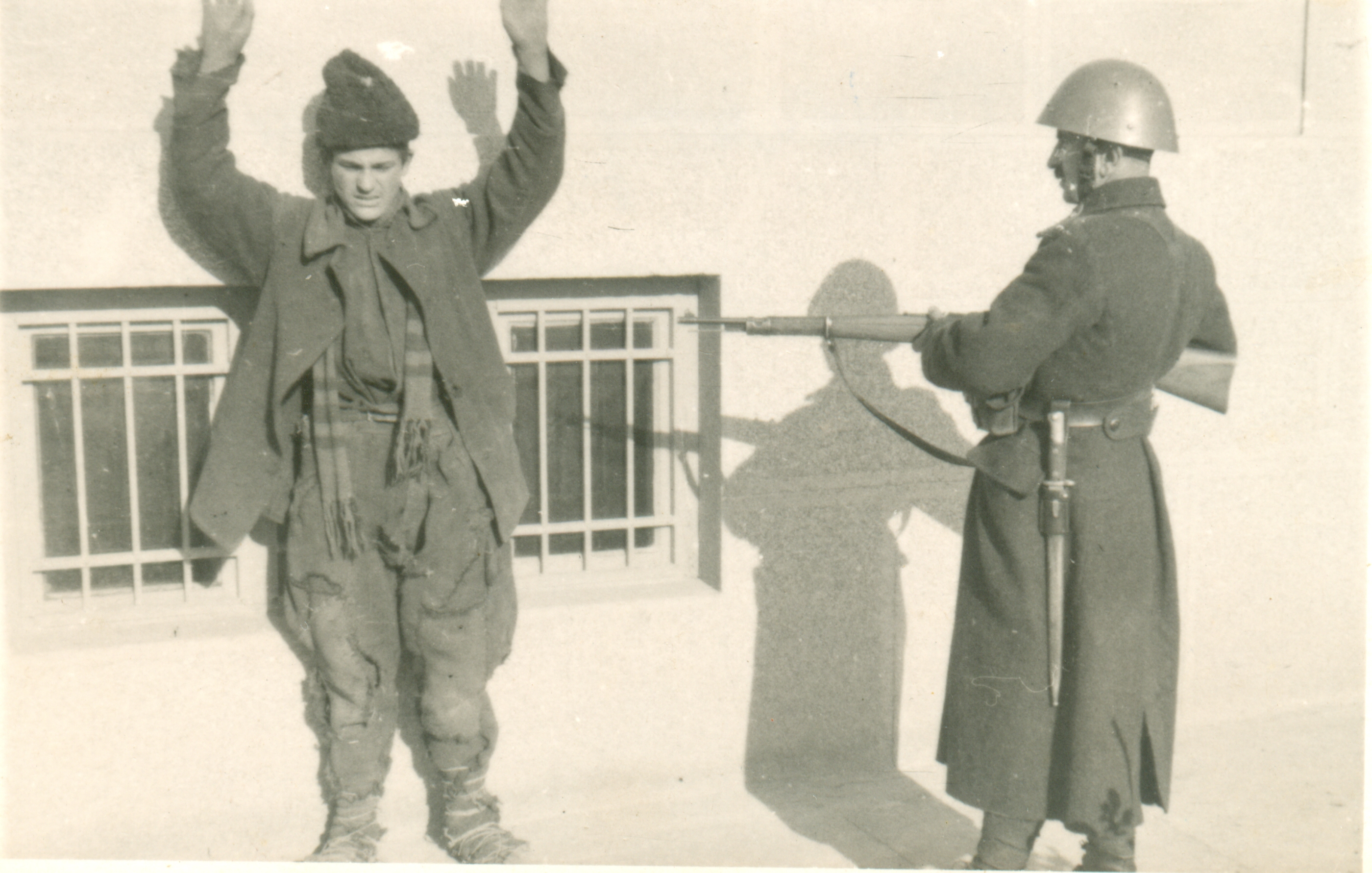 The Gestapo in Negotin Srpski (latinica): Gestapo u Negotinu